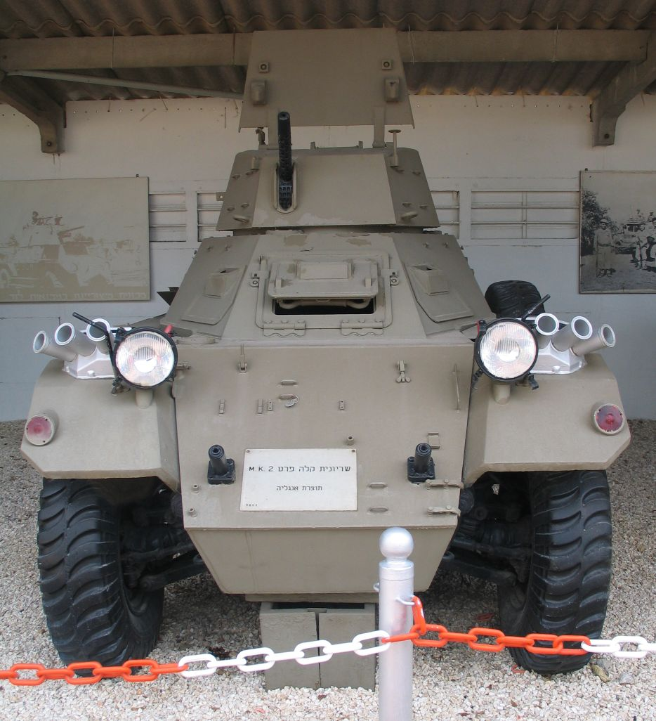 Description: Ferret Mk 2 armored car in Batey ha-Osef museum, Tel Aviv, Israel. 2005. Source: Photo by me, User:Bukvoed.